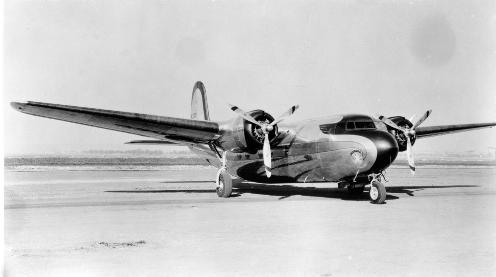 PictionID:40973000 - Title:Douglas DC-5 NC21701 - Catalog:15_002784 - Filename:15_002784.tif - Image from the Charles Daniels Photo Collection album "US Army Aircraft."----PLEASE TAG this image with any information you know about it, so that we can permanently store this data with the original image file in our Digital Asset Management System.----SOURCE INSTITUTION: San Diego Air and Space Museum Archive